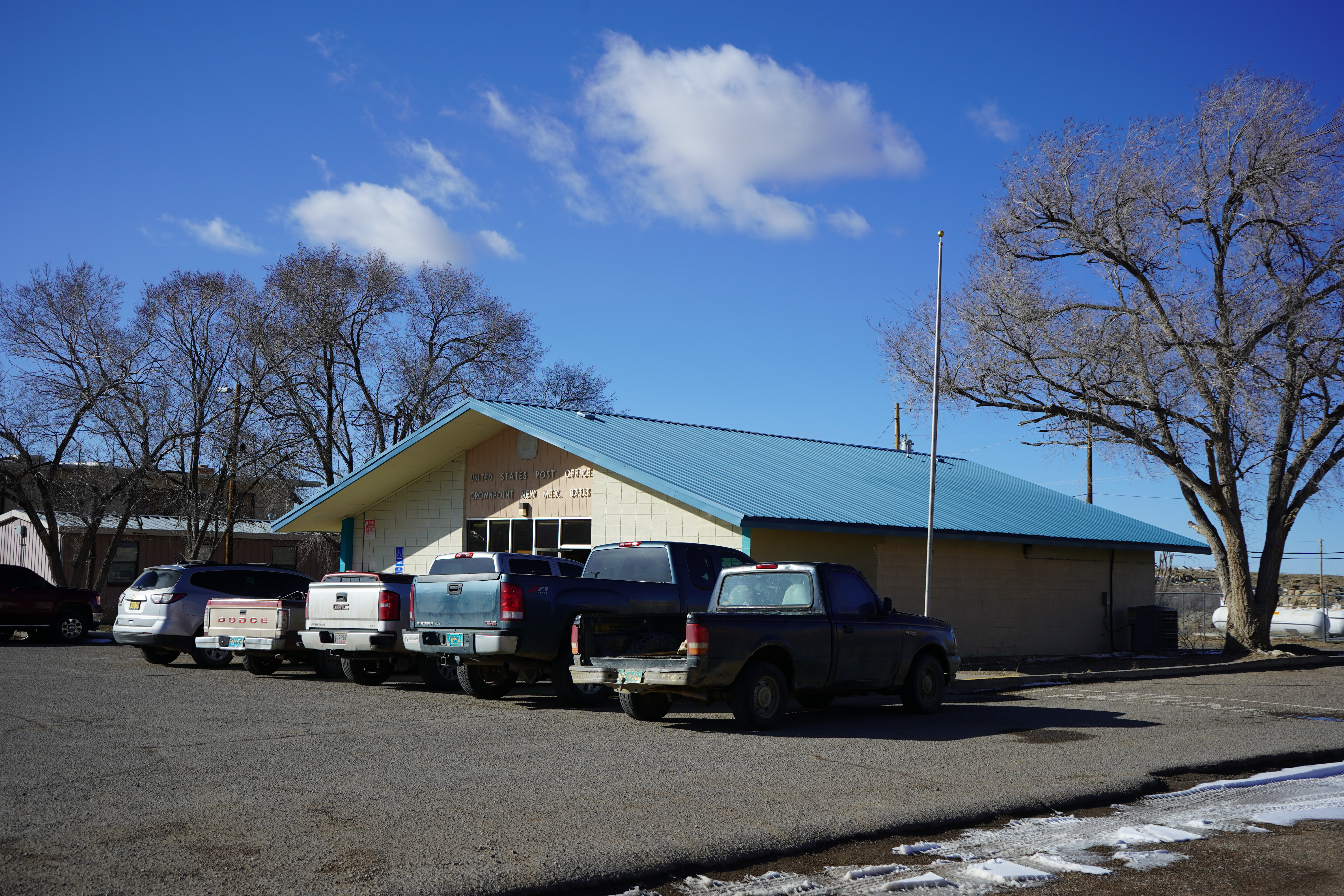 United States post office for Crownpoint, New Mexico. Photograph taken on 2019-02-11T22:18:55Z.